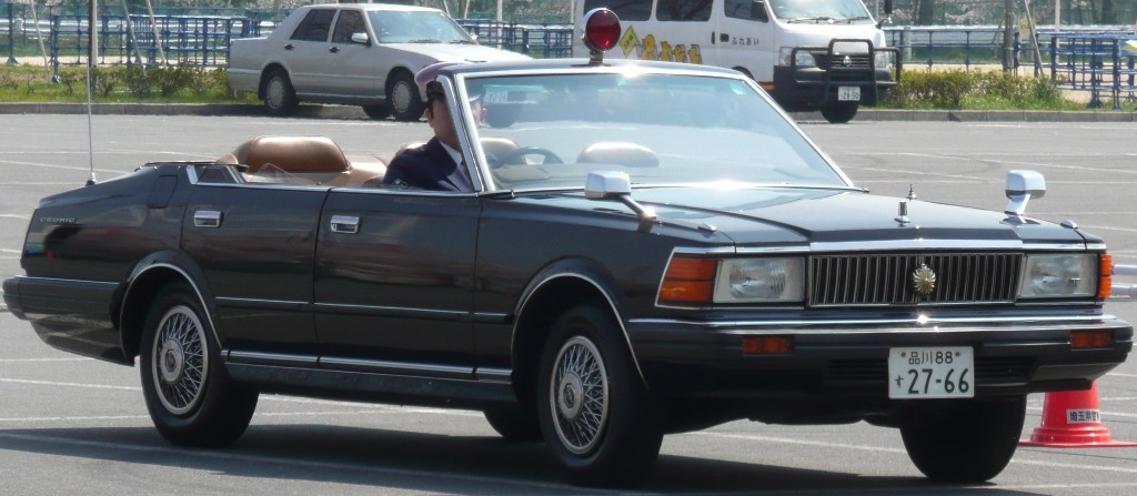 Nissan Cedric open car.